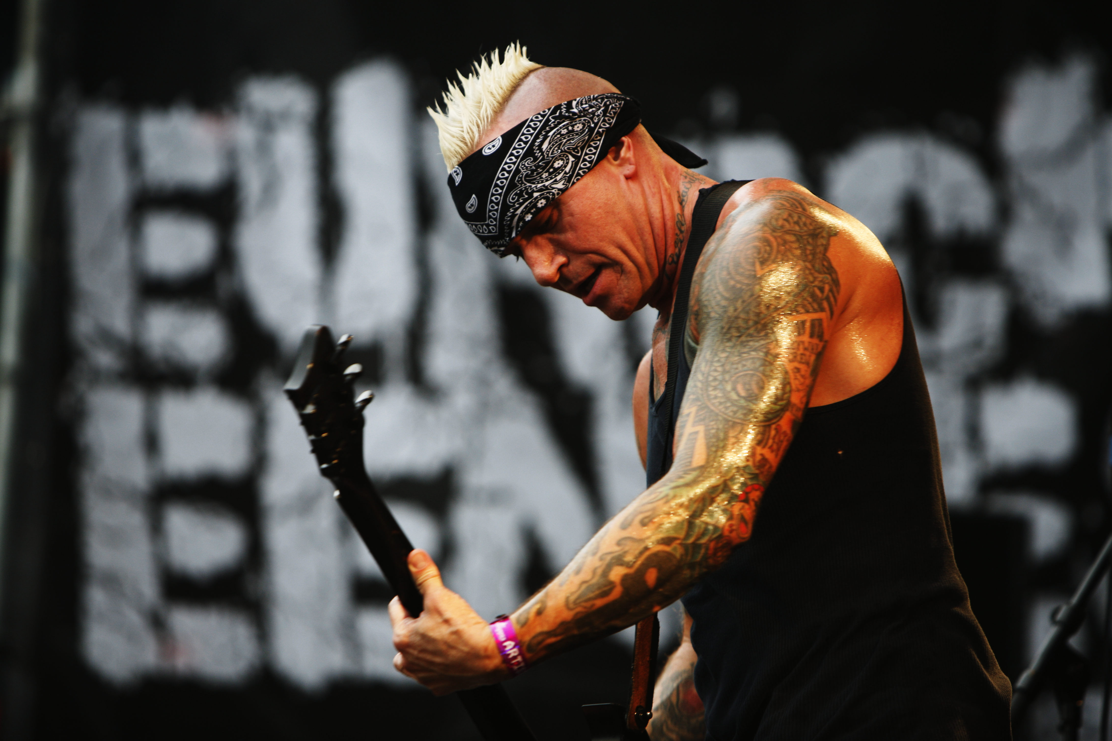 Sick of It All at the Eurockéennes of 2007.